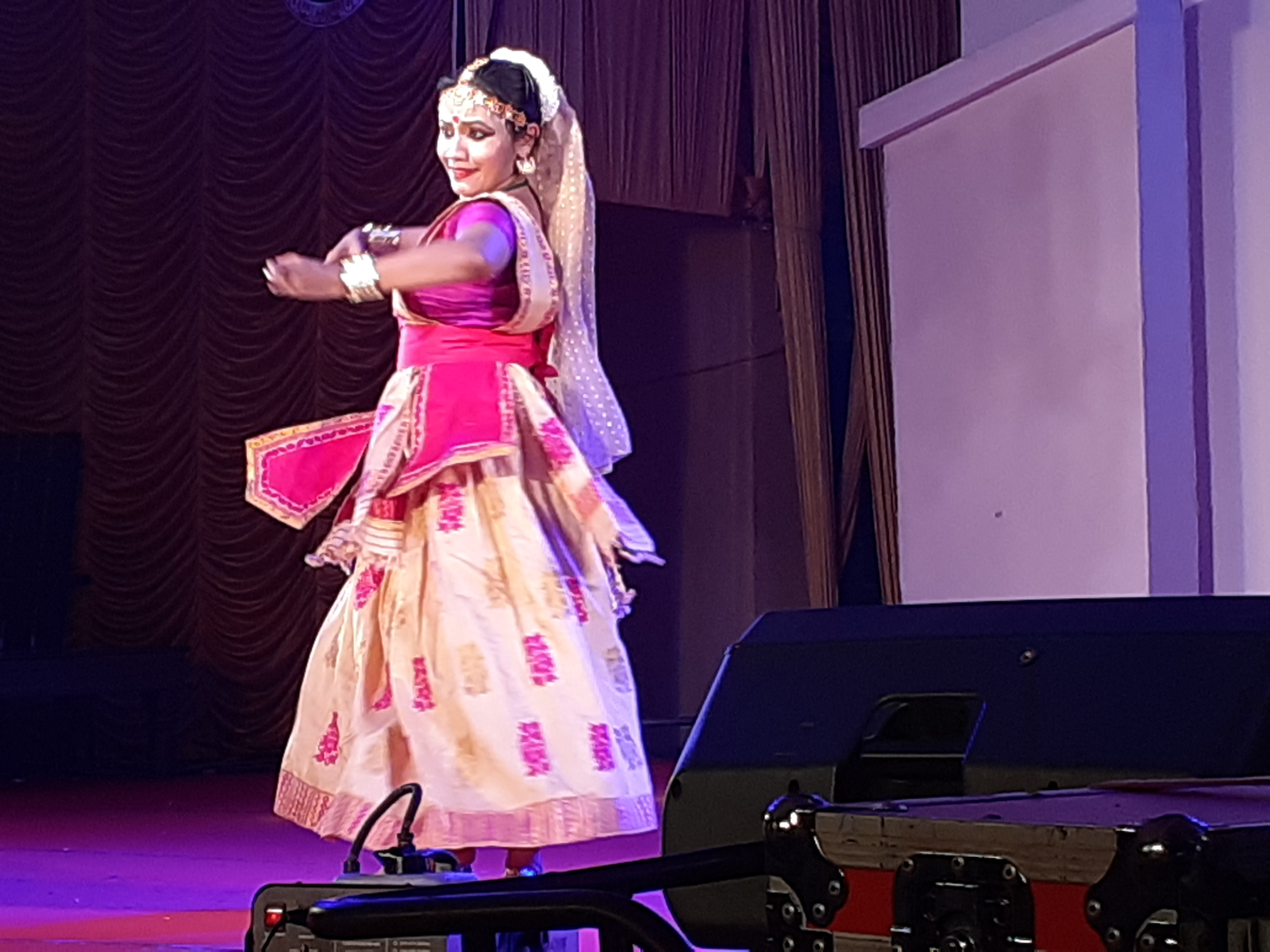 Anwesha mohantha is satriya dancer from assam